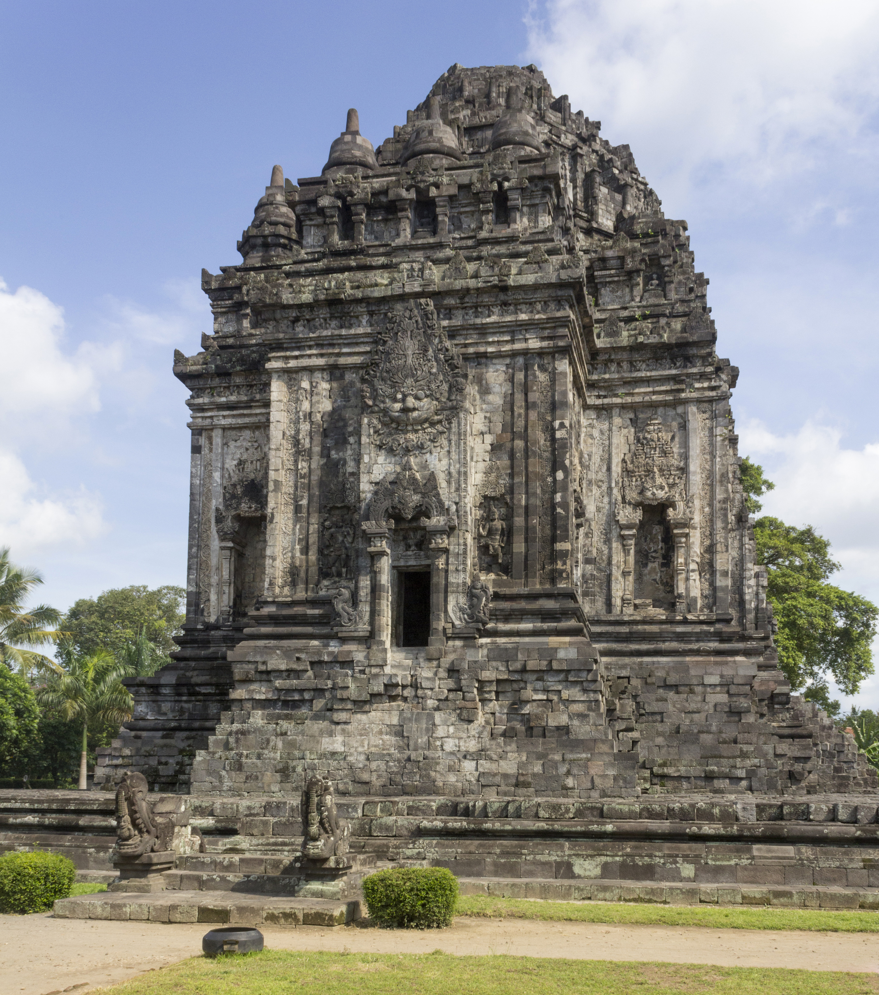 Kalasan Temple from the south-south-east, 23 November 2013